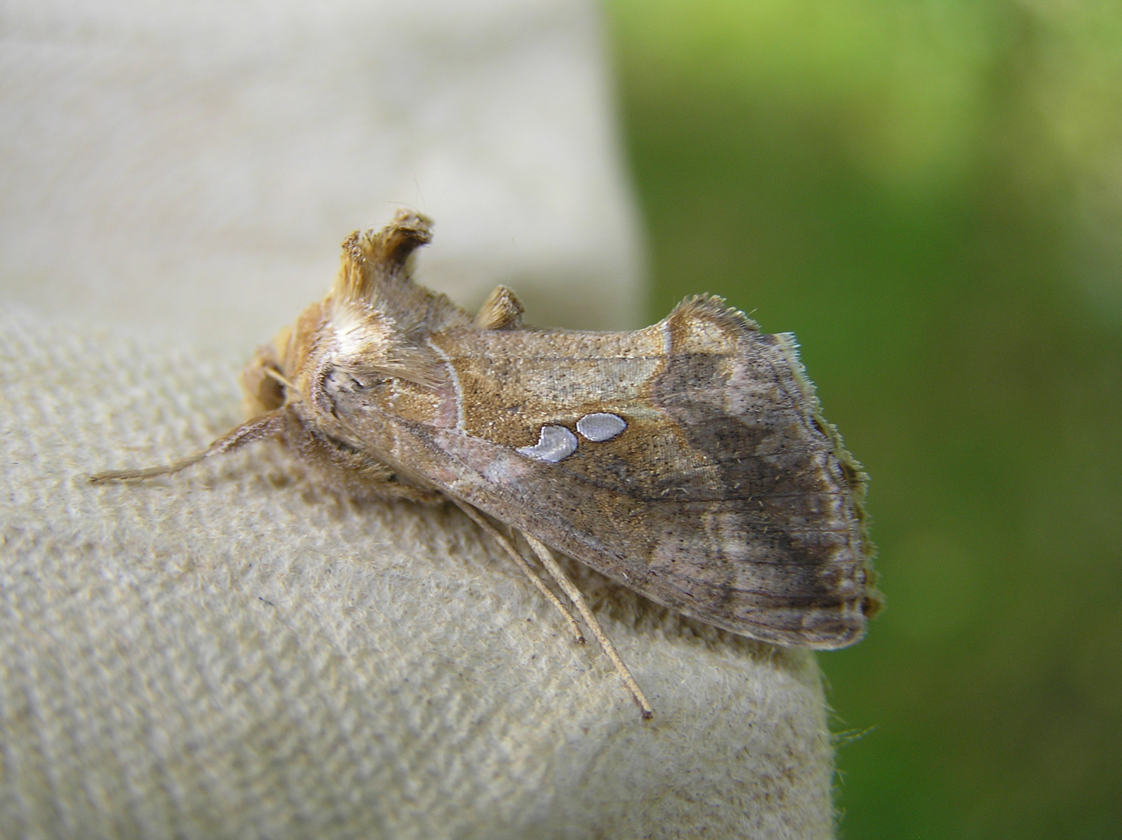 Chrysodeixis chalcites (Goes, the Netherlands)